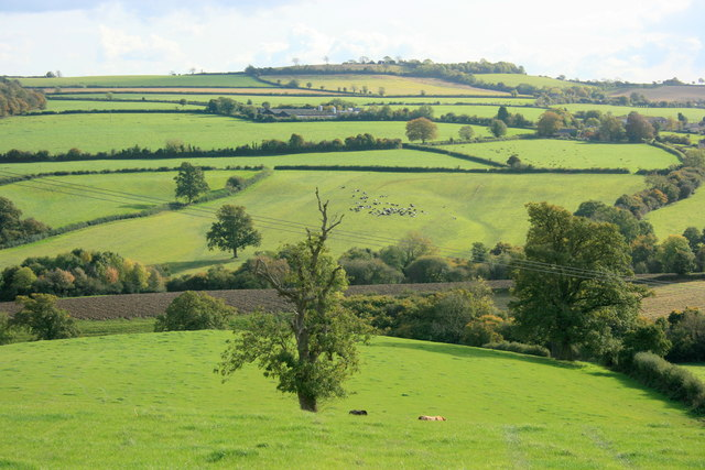 East of south near Wilmington After the horse pasture in the immediate foreground Newton Brook flows along the bottom of the valley. Climbing the other side Inglesbatch is almost hidden on the right hand edge with Beaufort Farm near the centre. Duncorn Hill is on the skyline.